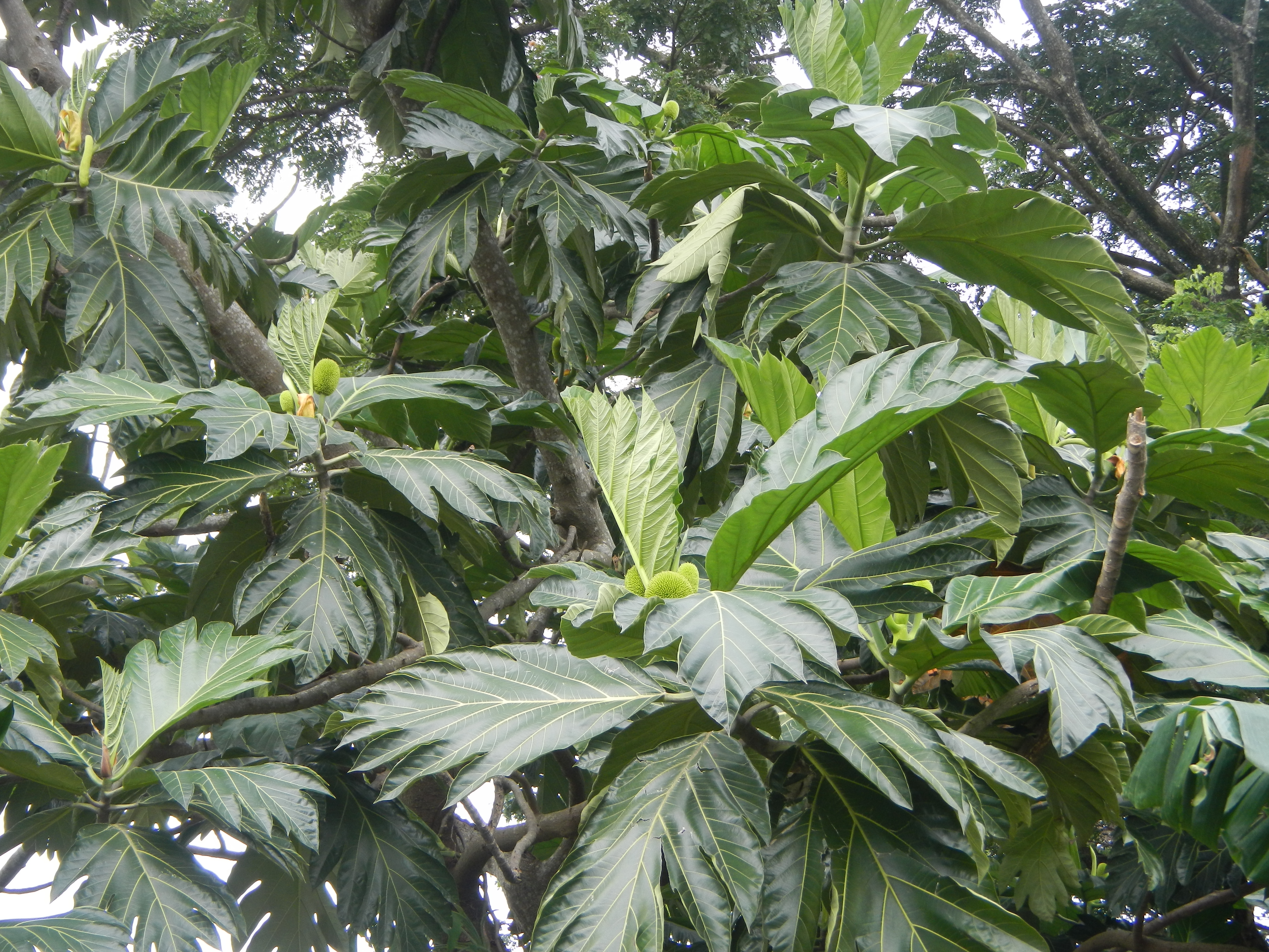 Rimas, (Artocarpus altilis, also known as breadfruit the species of tree in the Moraceae fig family found in the Philippines, Kamansi (Tagalog, Kapampangan; also the name for the breadnut); Dalungyan, Rimas, Ogob (Quezon Province, Bikol languages, Visayan languages), Antipolo (Old Tagalog name) in Barangay Santo Rosario, Aliaga, Nueva Ecija.